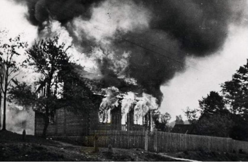 Polish village Michniów burned by German gendarmerie. On 12-13 July 1943 German occupants completely destroyed Michniów and massacred 204 its inhabitants. The picuture shows burning house of Władysław Materek.